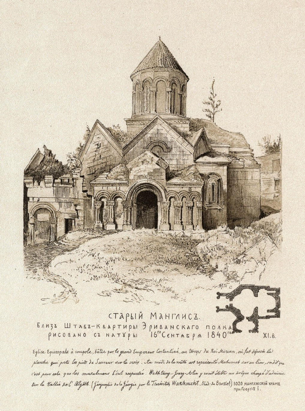 Gagarin. Manglisi